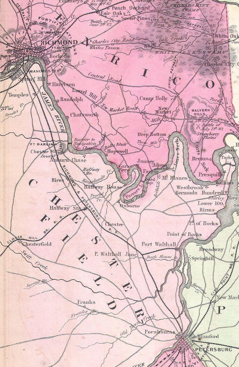 1862 Map Showing the Richmond and Petersburg Railroad with the connection to the Clover Hill and other Railroads. Cropped image of 1862 Johnson's Map of The Vicinity Of Richmond and Peninsular Campaign in Virginia - Geographicus - Richmond-j-62.